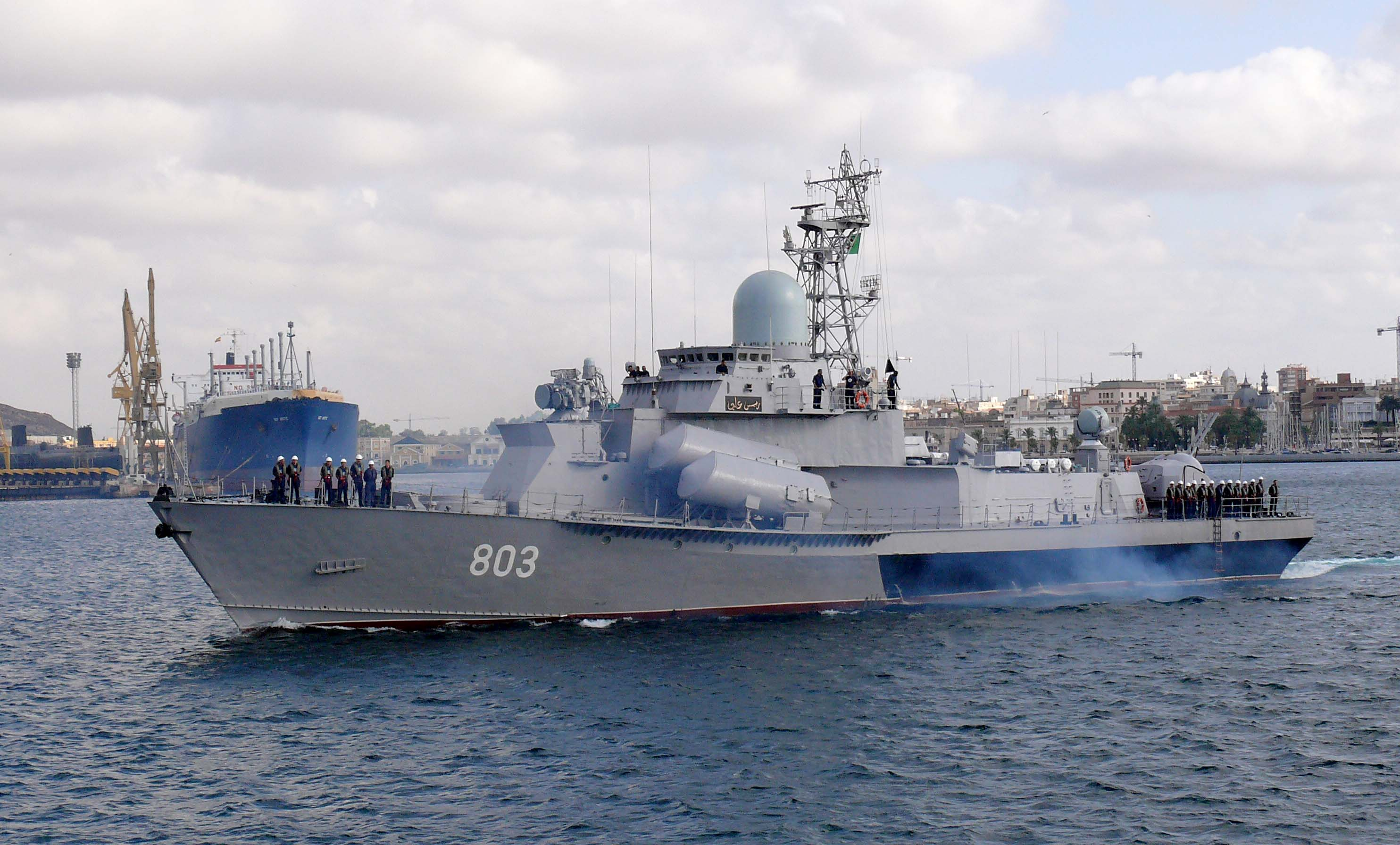 Algerian project 1234E (NANUCHKA II class) missile corvette Rais Ali, former the sovet MRK-22, in Cartagena